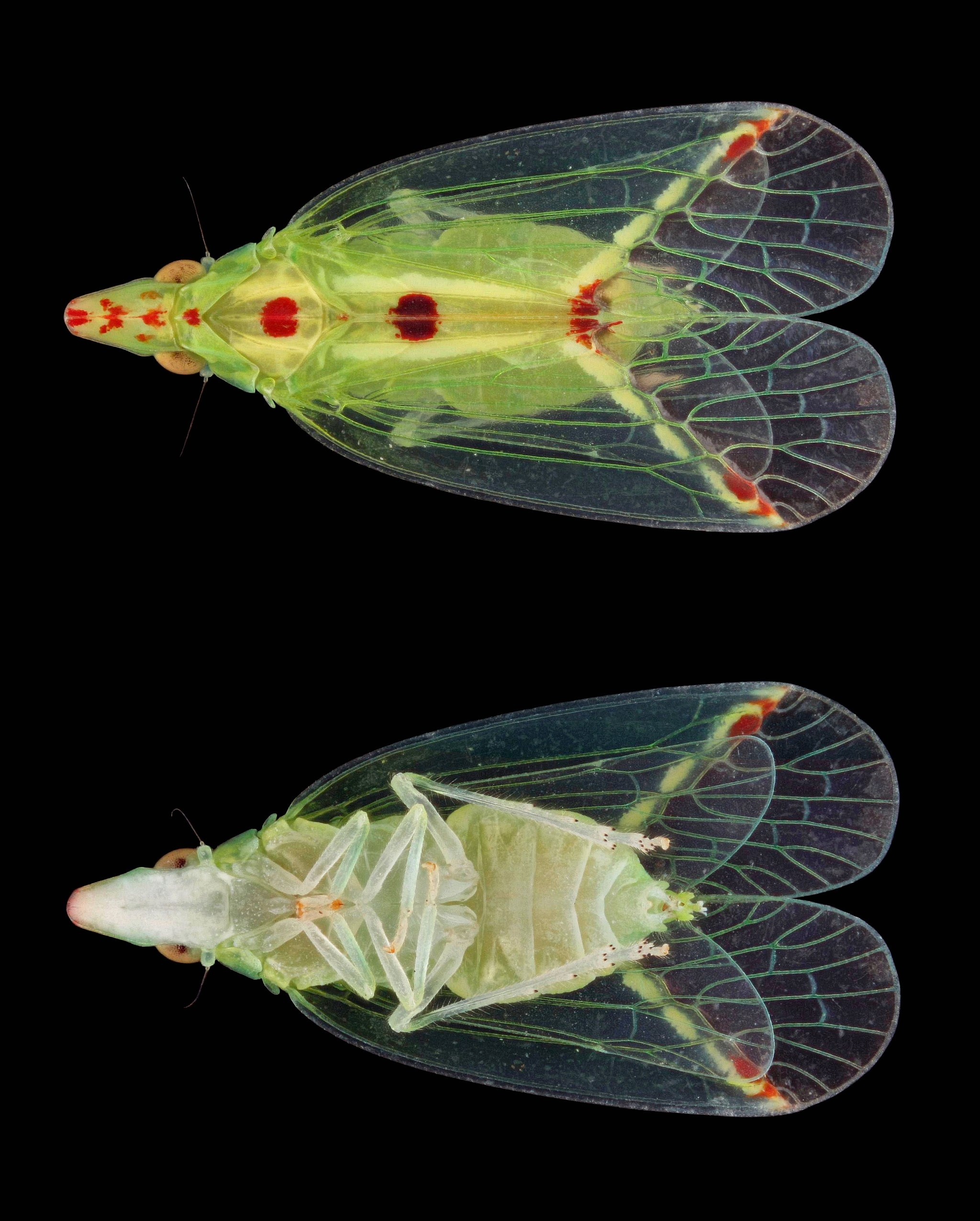 Focus stacks of 26 for the dorsal side and 37 for the ventral side in Zerene Stacker. Shot with an El-Nikkor 50mm f2.8 N reversed at f4 and diffused fiber optic lighting. The hopper is approximately 4.5mm long to the end of the abdomen and 6.5mm to the end of the wings.